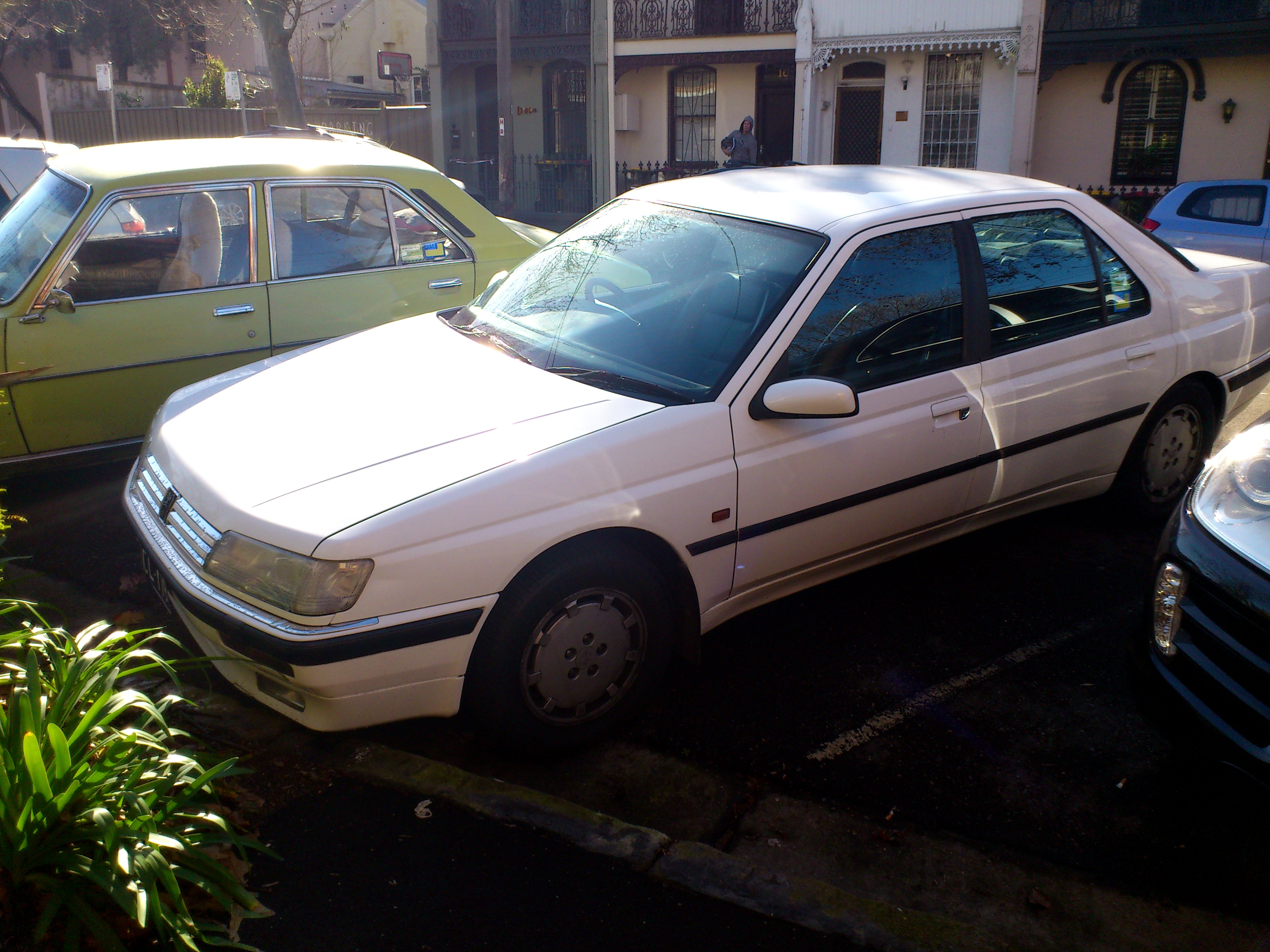 A very rare car in Australia.